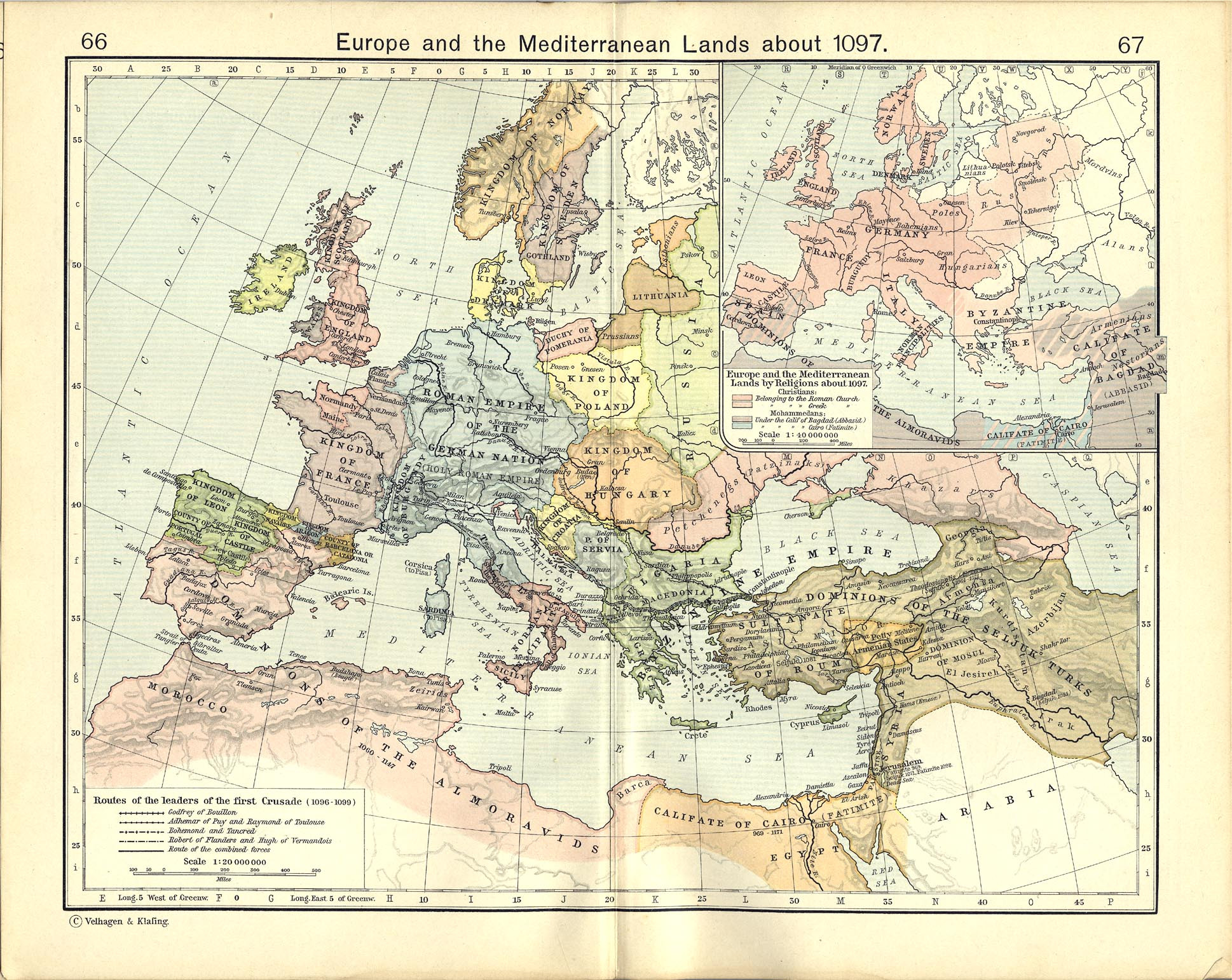 Europe and the Mediterranean Lands about 1097